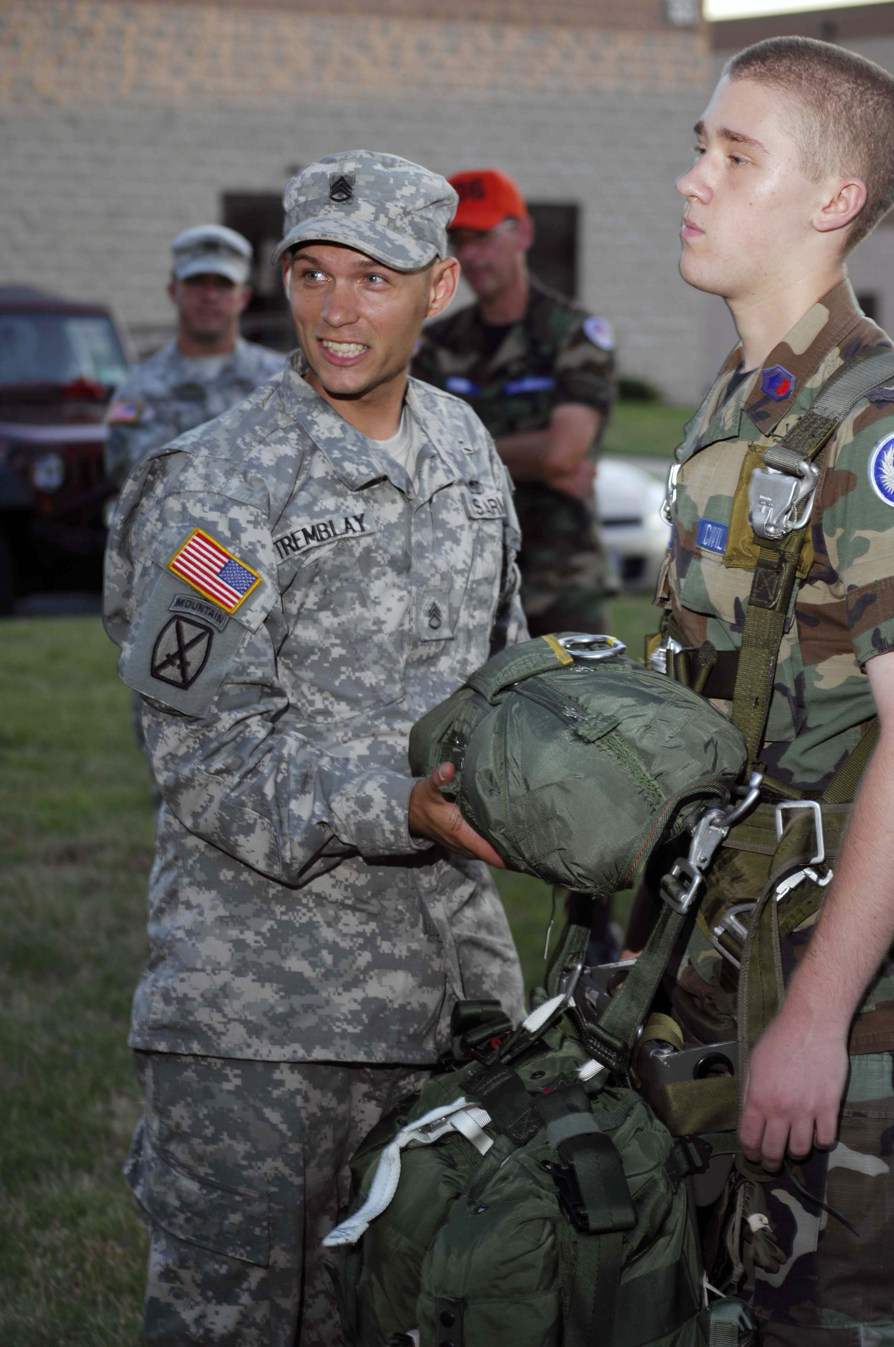 Staff Sgt. Joseph Tremblay shows how to rig the combat equipment onto a parachute jumper with assistance from Cadet Chief Master Sgt. Joseph Dempsey June 29 during an airborne class for 15 cadets from the Civil Air Patrol Harrisburg International Composite Squadron 306 on the 193rd Special Operations Wing Pennsylvania Air National Guard Base.